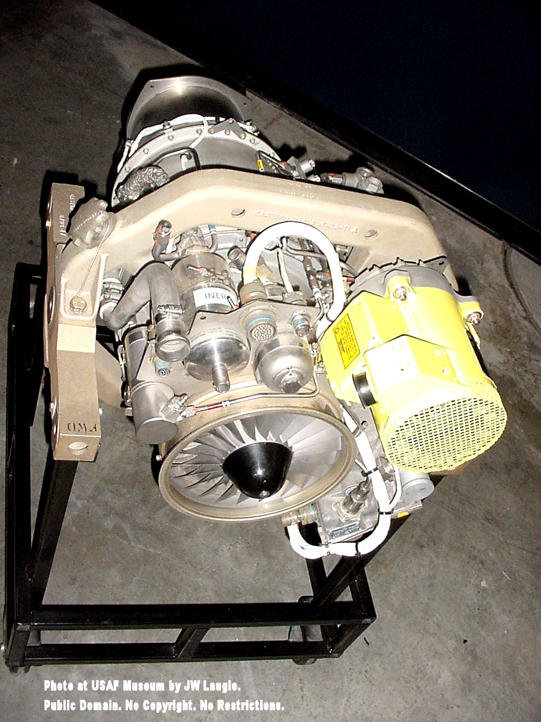 Williams International F112-WR-100 turbofan engine